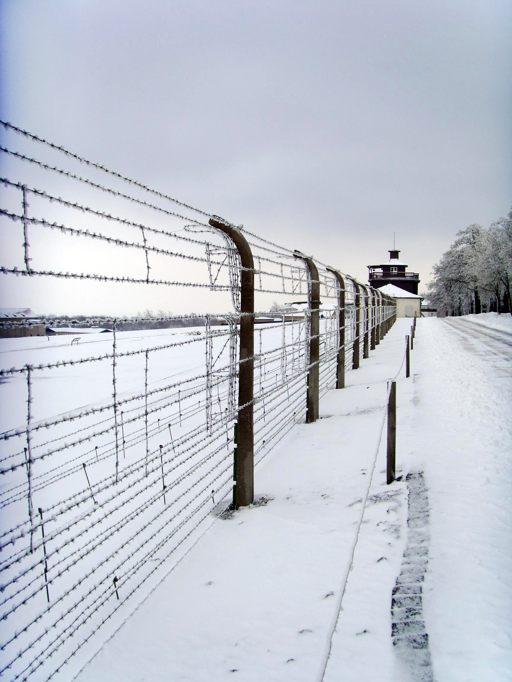 Buchenwald concentration camp